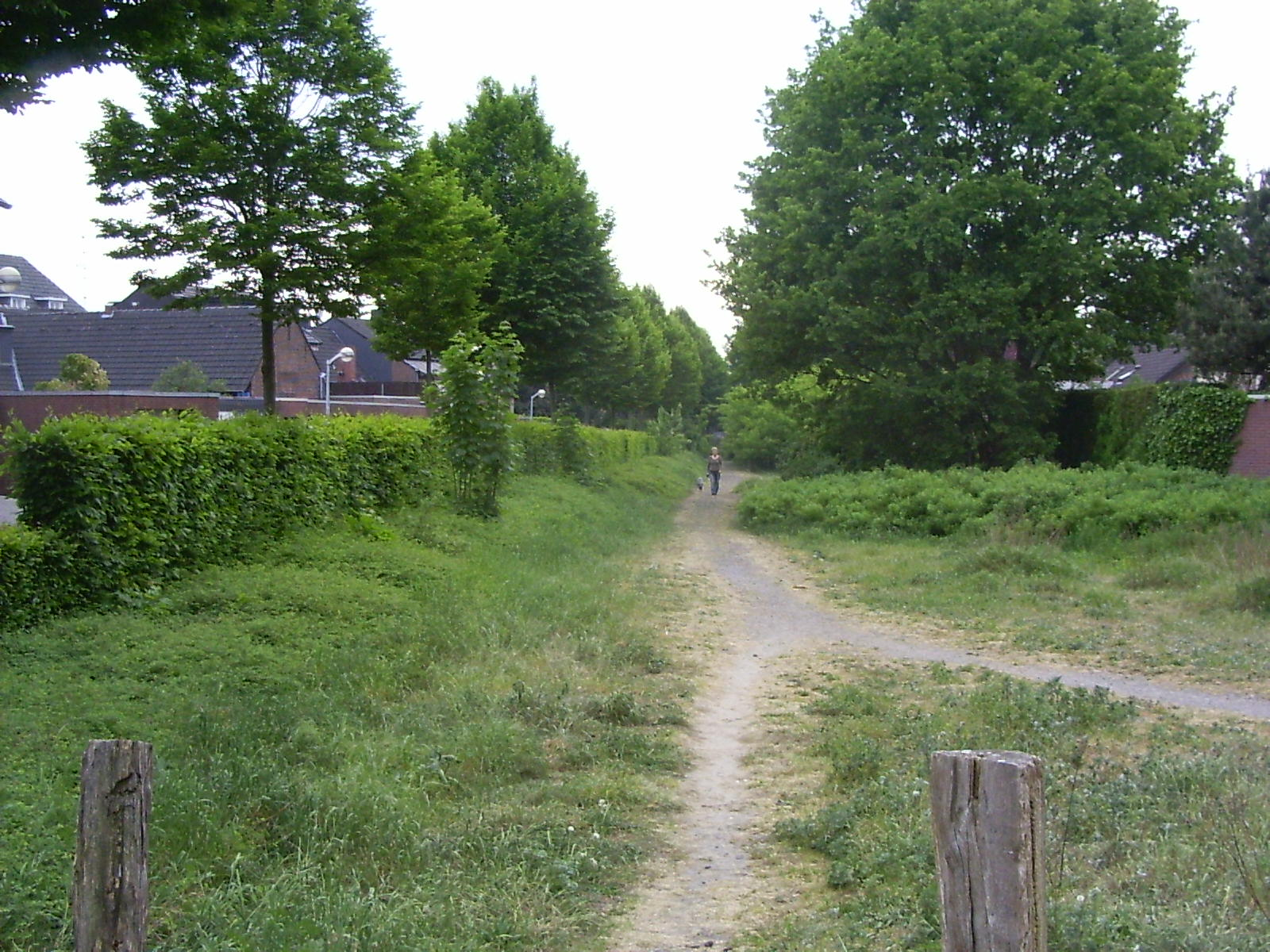 Bocholt (de), Railway line from Winterswijk (nl)